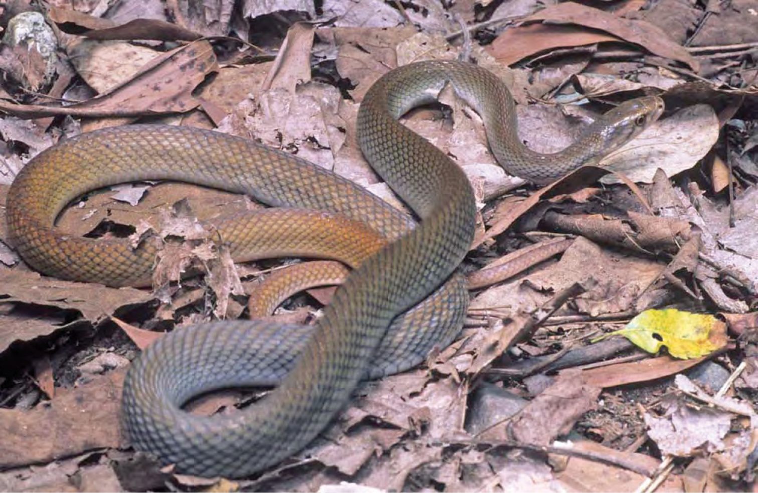 Coelognathus erythrurus manillensis (uncataloged specimen in PNM) from Barangay Binatug. Photo: ACD.